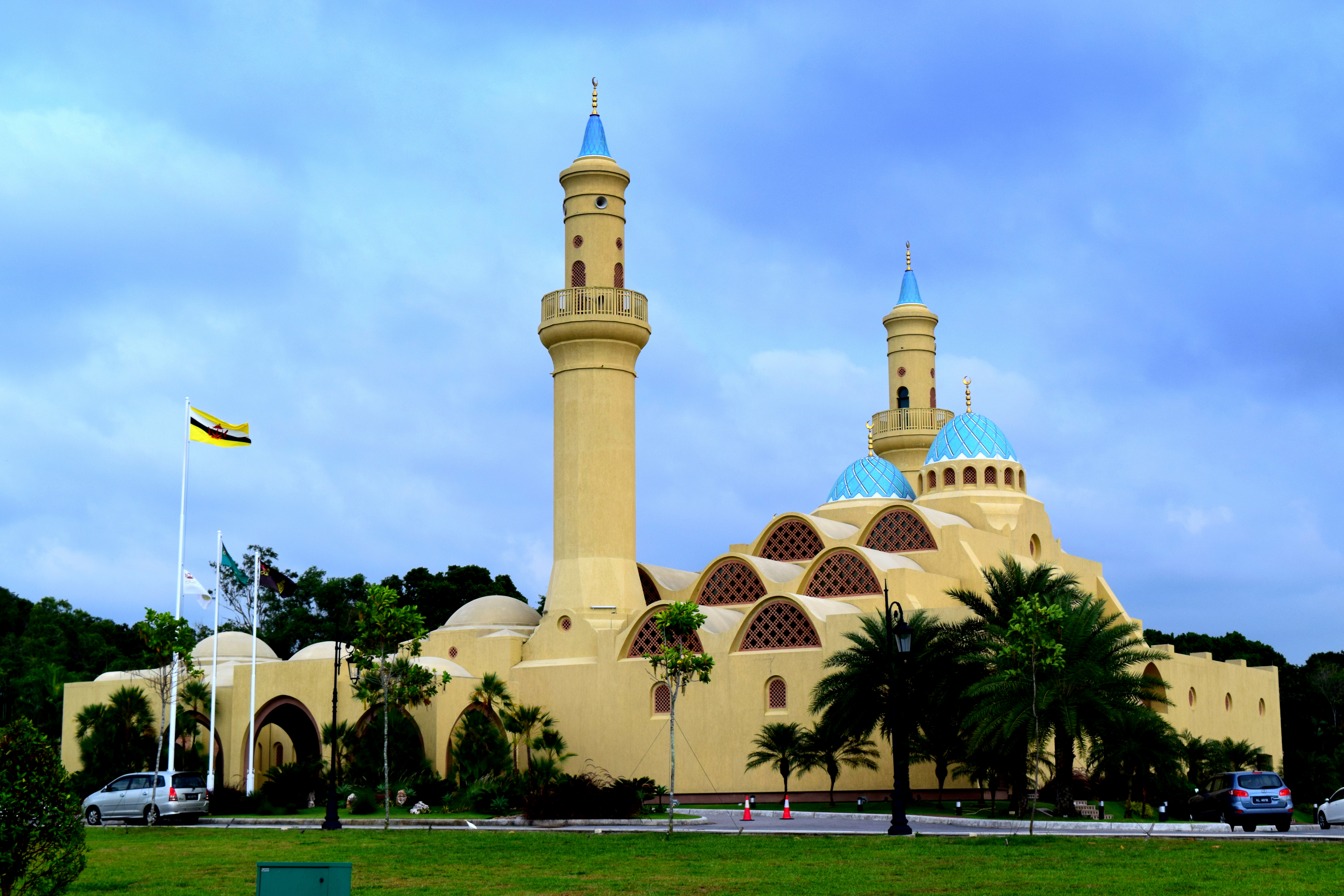 This is the mosque that been create beautiful